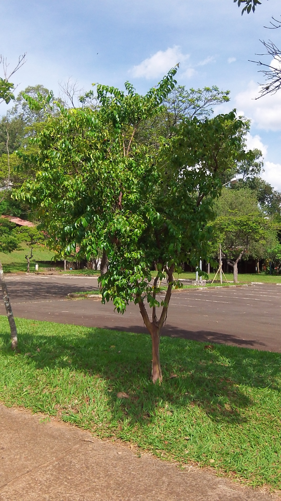 Eugenia candolleana (Rainforest plum, cambuí roxo, murtinha) with ripe fruits. The tree is over 10 years old and about 2.5 m tall; it may be stunted due to poor unfertilized soil. Picture taken in the UNICAMP campus (Campinas, SP, Brazil) by J. Stolfi on 2012-02-26, with a Kodak Playsport; reduced to 1/3 size with GIMP.